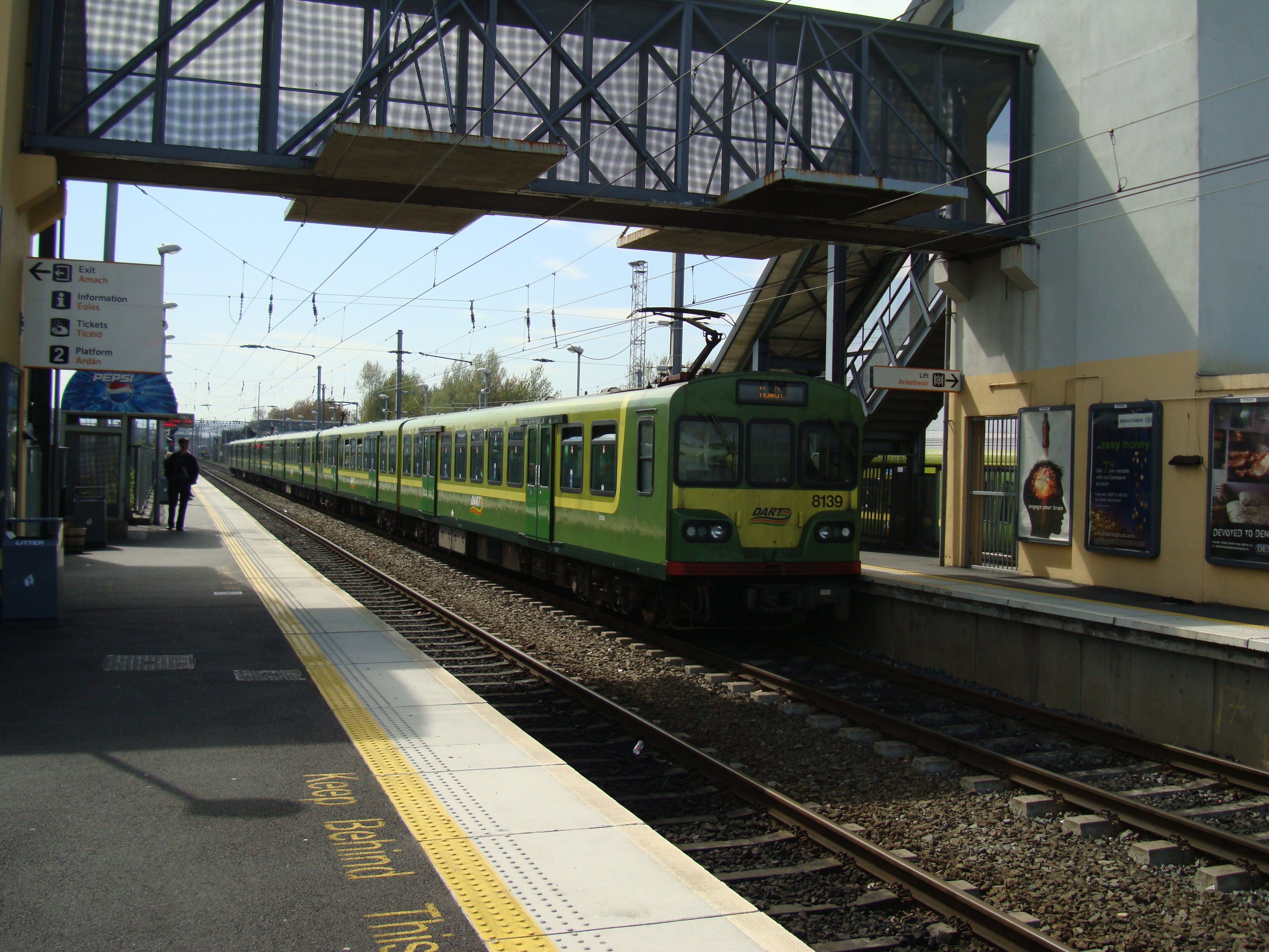 Refurbished IÉ 8100 Class DART electric multiple unit 8139 at Clontarf Road.